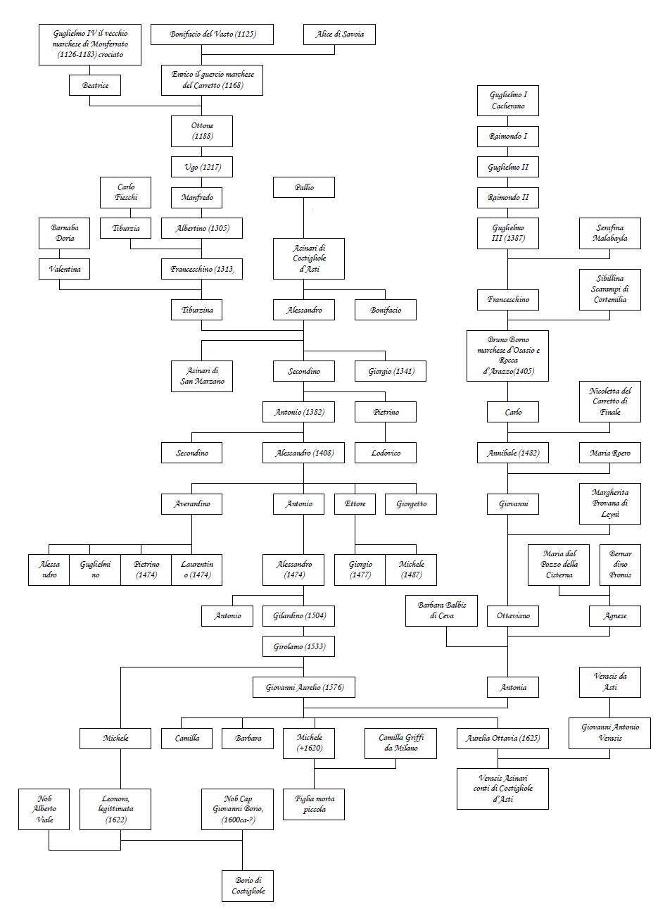 Family tree of Asinari of Costigliole, medieval family, created with Microsoft Word 2000. Source: A. Manno The subalpino patricians. Florence, 1906.